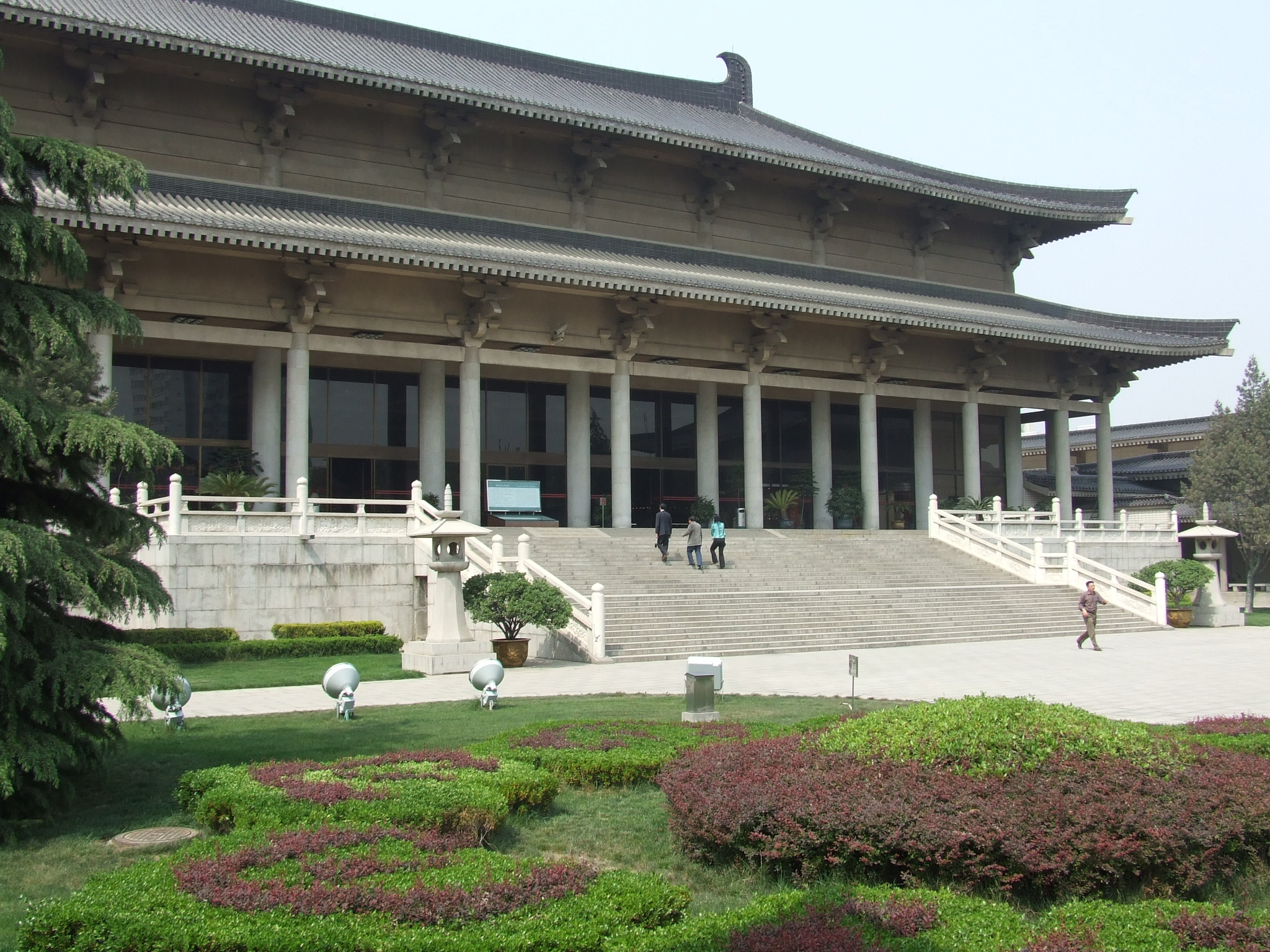 The Shaanxi History Museum in Xi'an